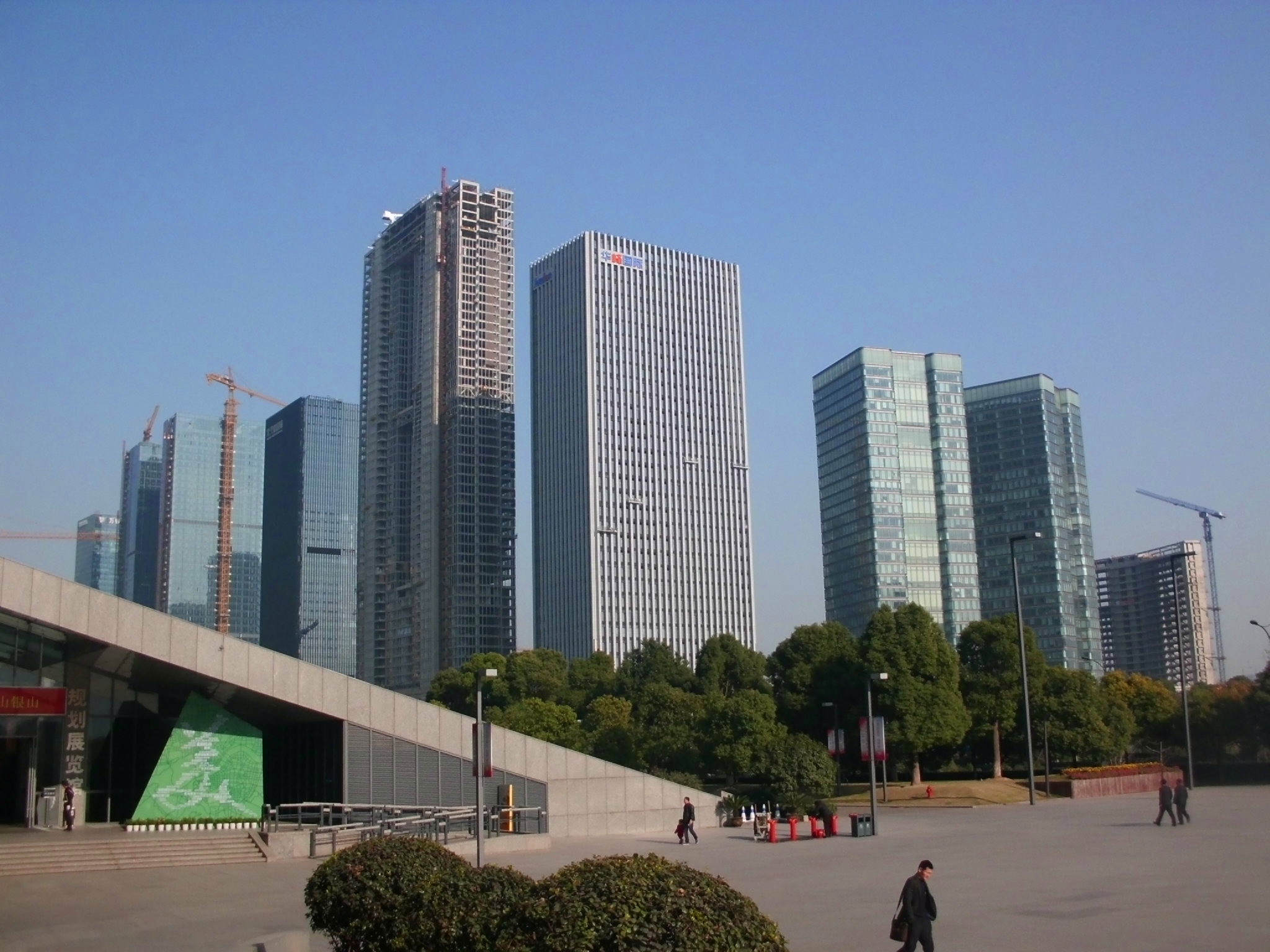 Skyscrapers in Hangzhou CBD